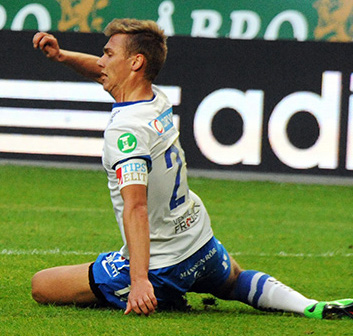 Linus Wahlqvist (cropped version)